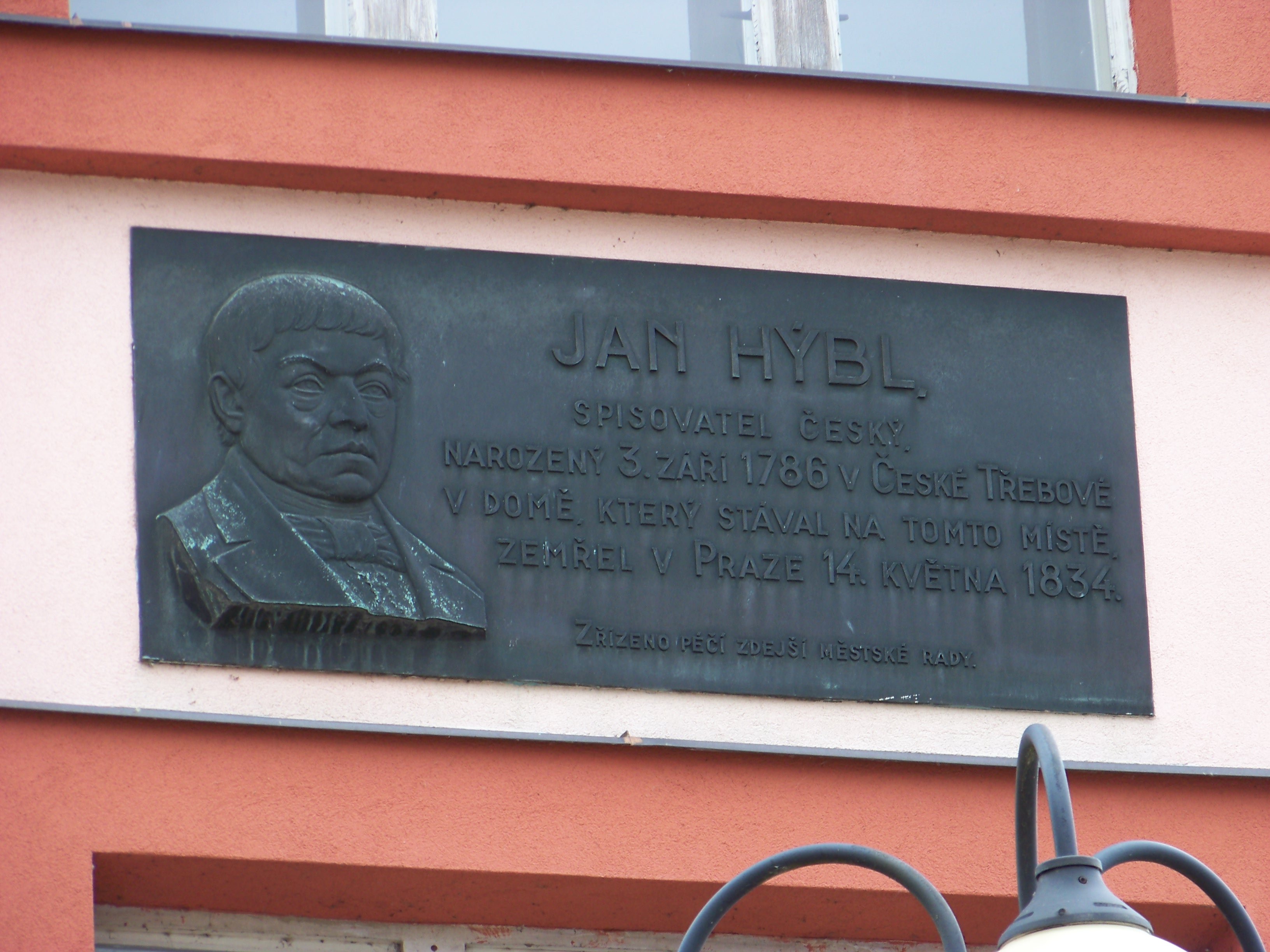 Česká Třebová, Ústí nad Orlicí District, Pardubice Region. Hýblova 97, a plaque to Jan Hýbl.